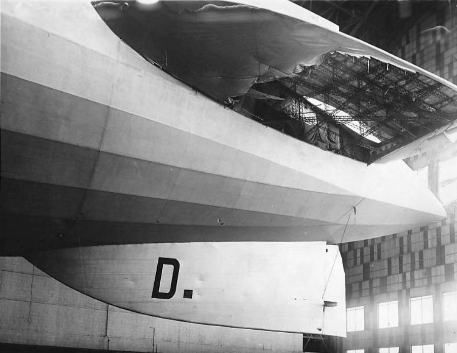 Photo of fin damage to the Graf Zeppelin I shown in the hangar at Lakehurst, New Jersey. The aircraft sustained the damage while passing through a squall line near Bermuda on its way to the United States. This was the Graf Zeppelin's first transatlantic flight.